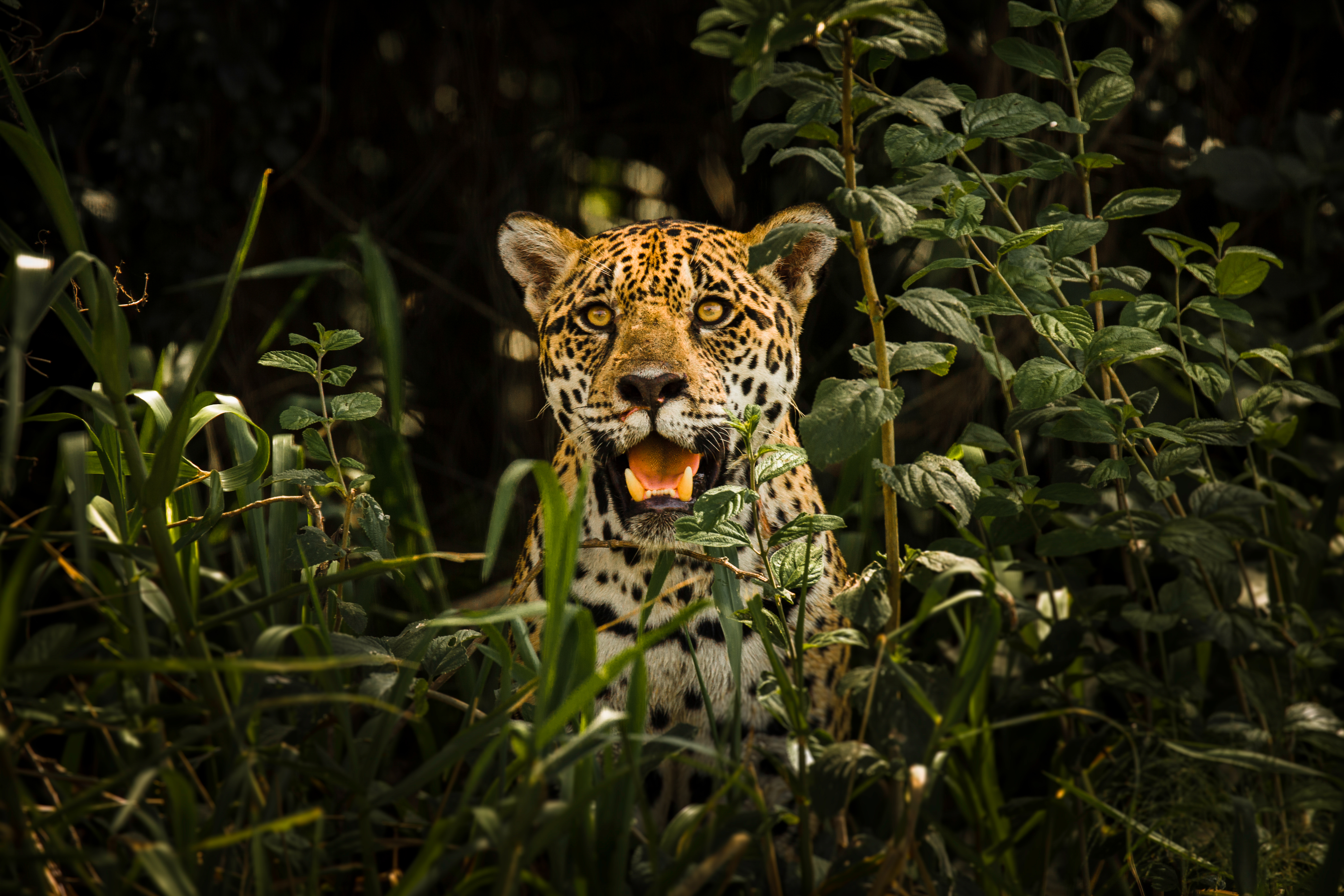 A jaguar (Panthera onca) lying among shrubs in the Pantanal Conservation Area